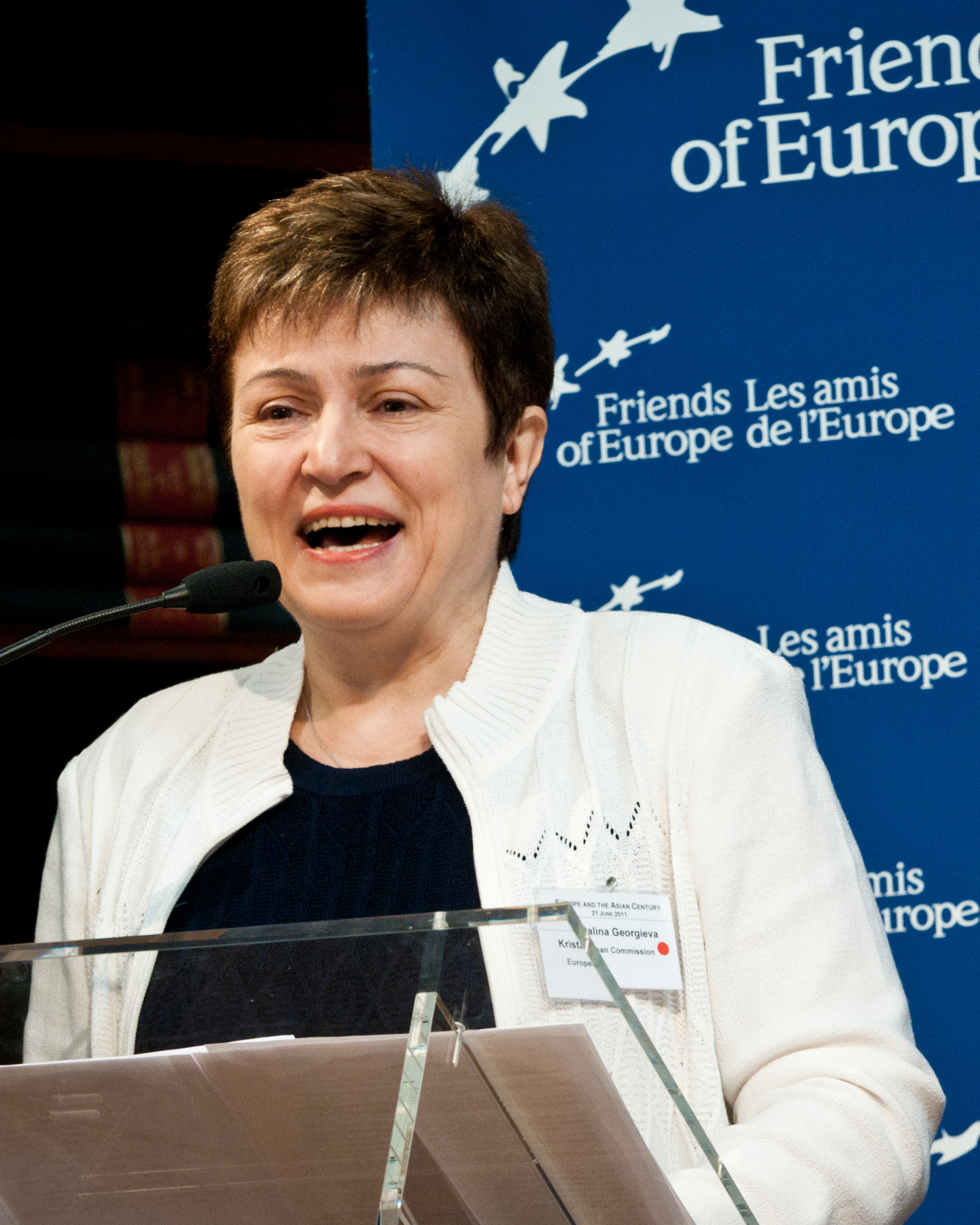 Kristalina Georgieva, European Commissioner for International Cooperation, Humanitarian Aid and Crisis Response